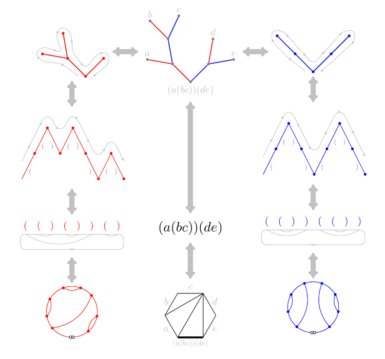 Different bijections between sets with cardinality equal to Catalan number. In the middle are "symmetric" examples (complete binary tree, non-associative product and triangulation of polygon), on the two sides are lateralized examples (planar trees, positif paths, parenthesizings (Dyck words) and noncrossing partitions).